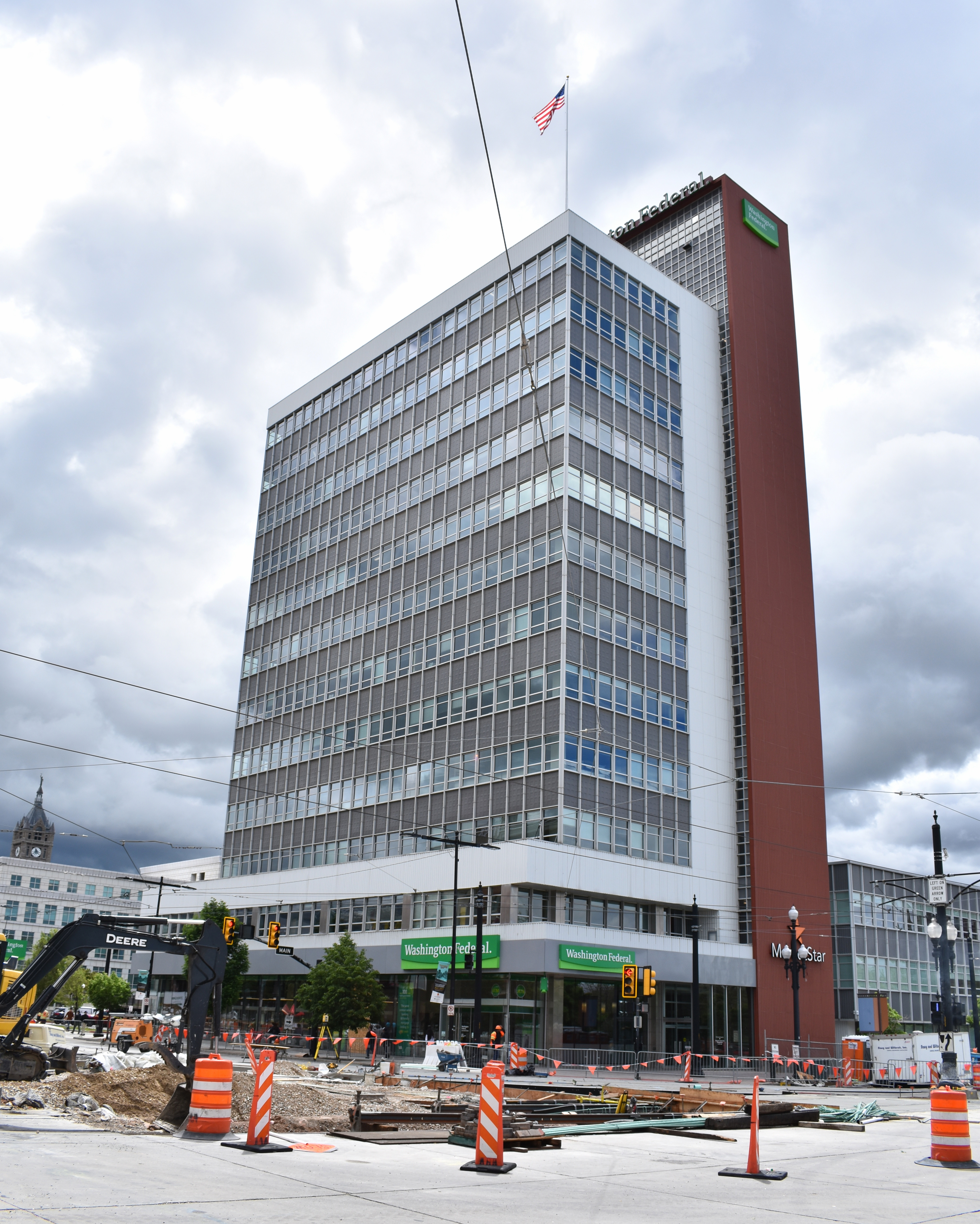 The First Security Bank Building (1955) was designed by W. A. Sarmiento and W. G. Knoebel and is listed on the National Register of Historic Places.